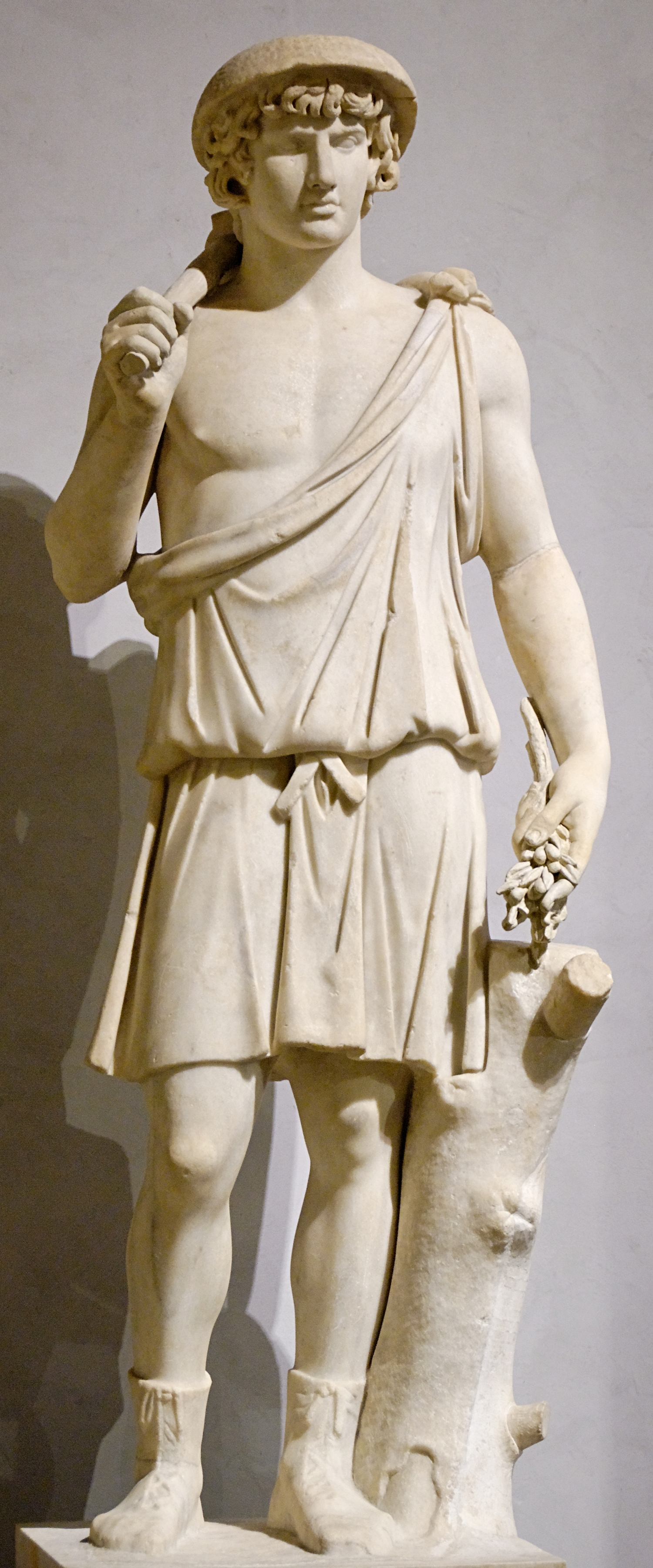 Antinous as Aristaeus, god of the gardens. Bought in Rome in the 17th century by Cardinal Richelieu for his collections.